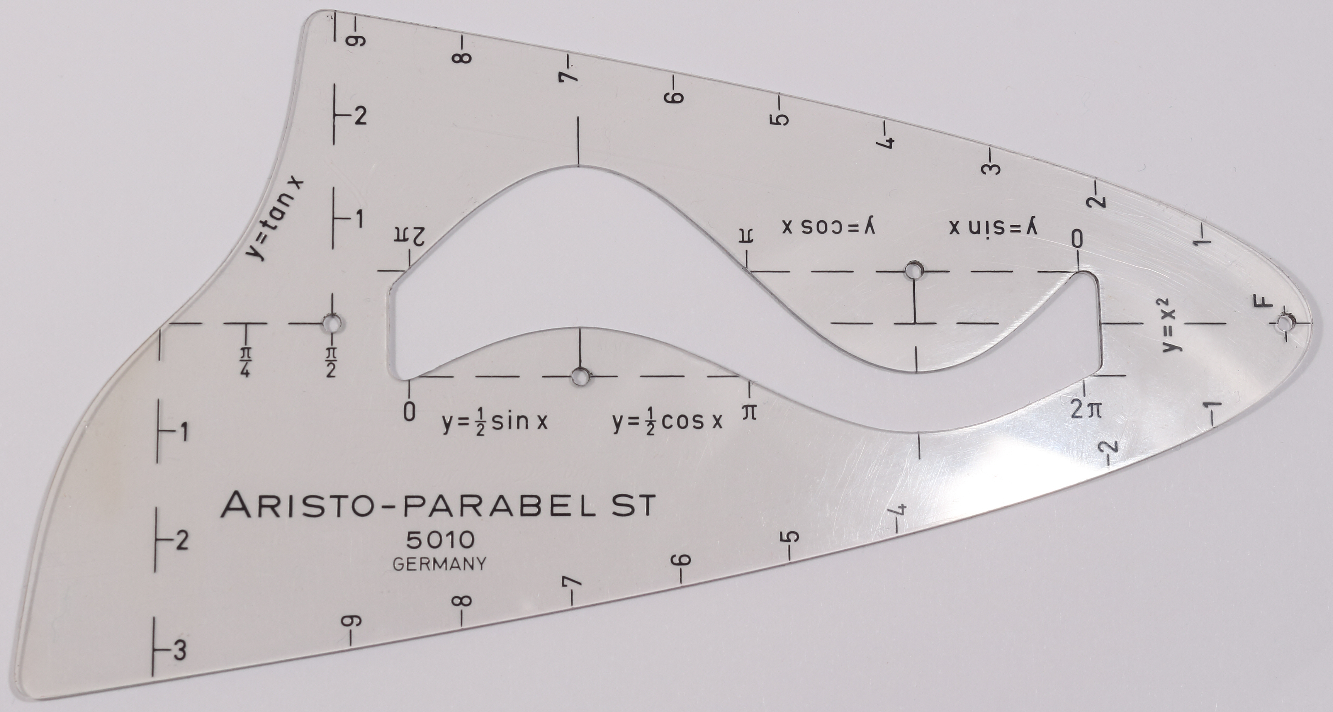 ARISTO ST 5010 Normparabel Schablone